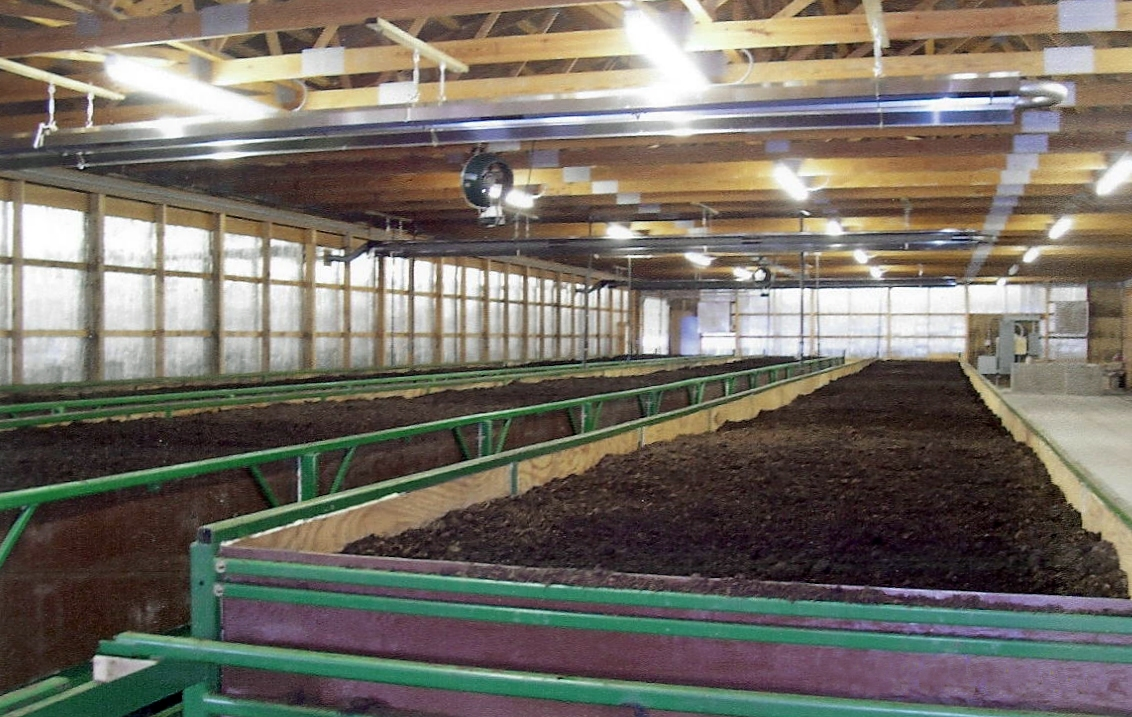 Photo of Raised Bed Vermicomposting